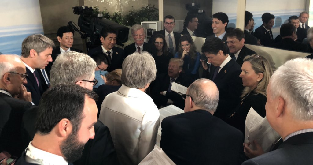 Negotiations with U.S. President Donald Trump at the 2018 G7 summit in La Malbaie, Quebec, Canada.